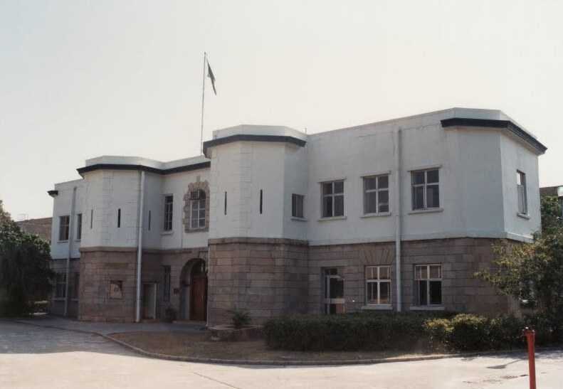 Staffordshire_Regiment_Stonecutters_Headquarters